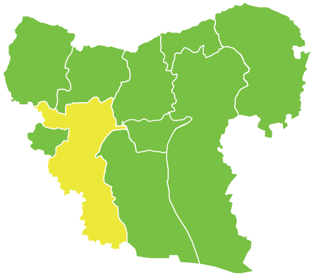 Mount Simeon District — in the western region of the Governorate of Aleppo, in northern Syria.